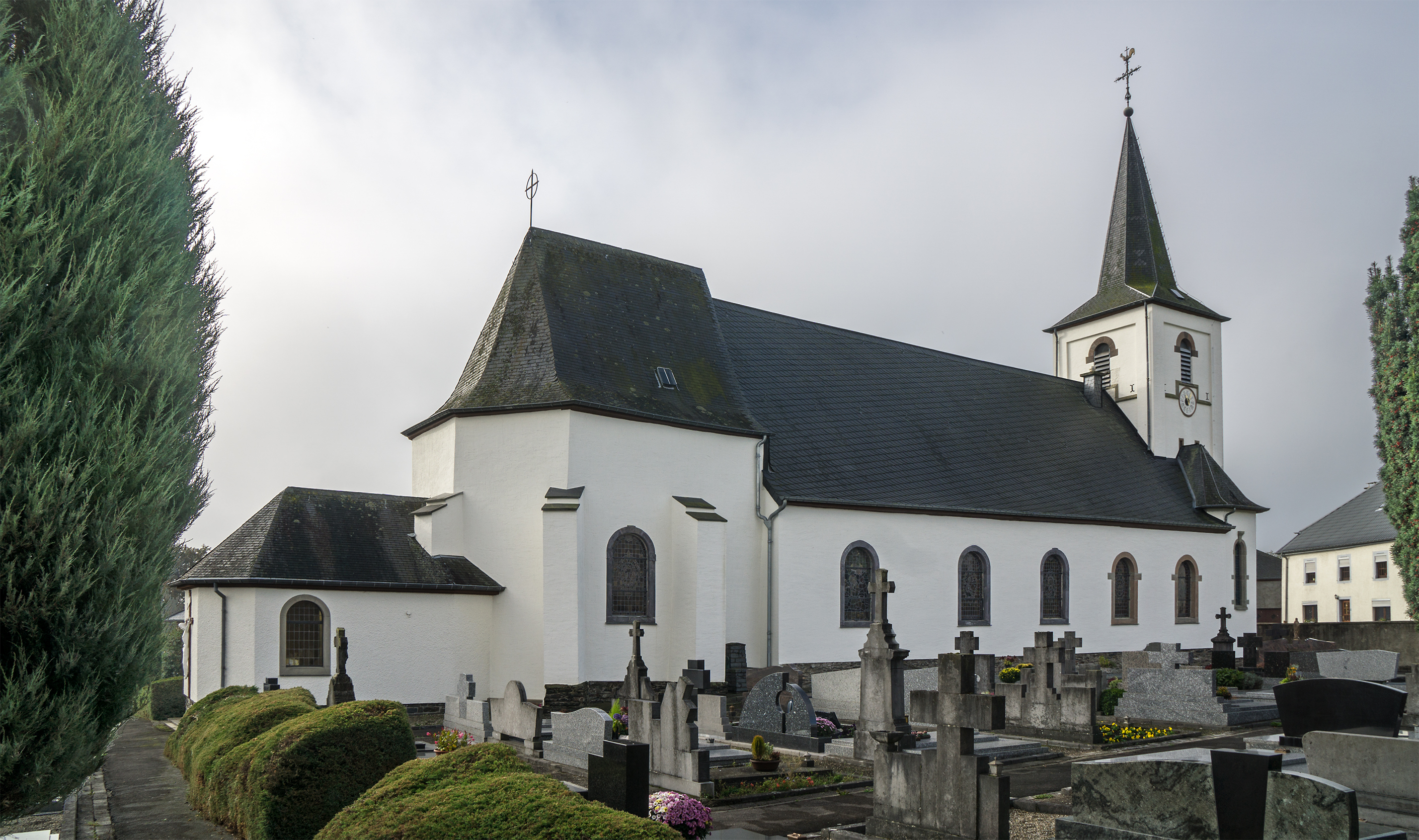 Church of Asselborn